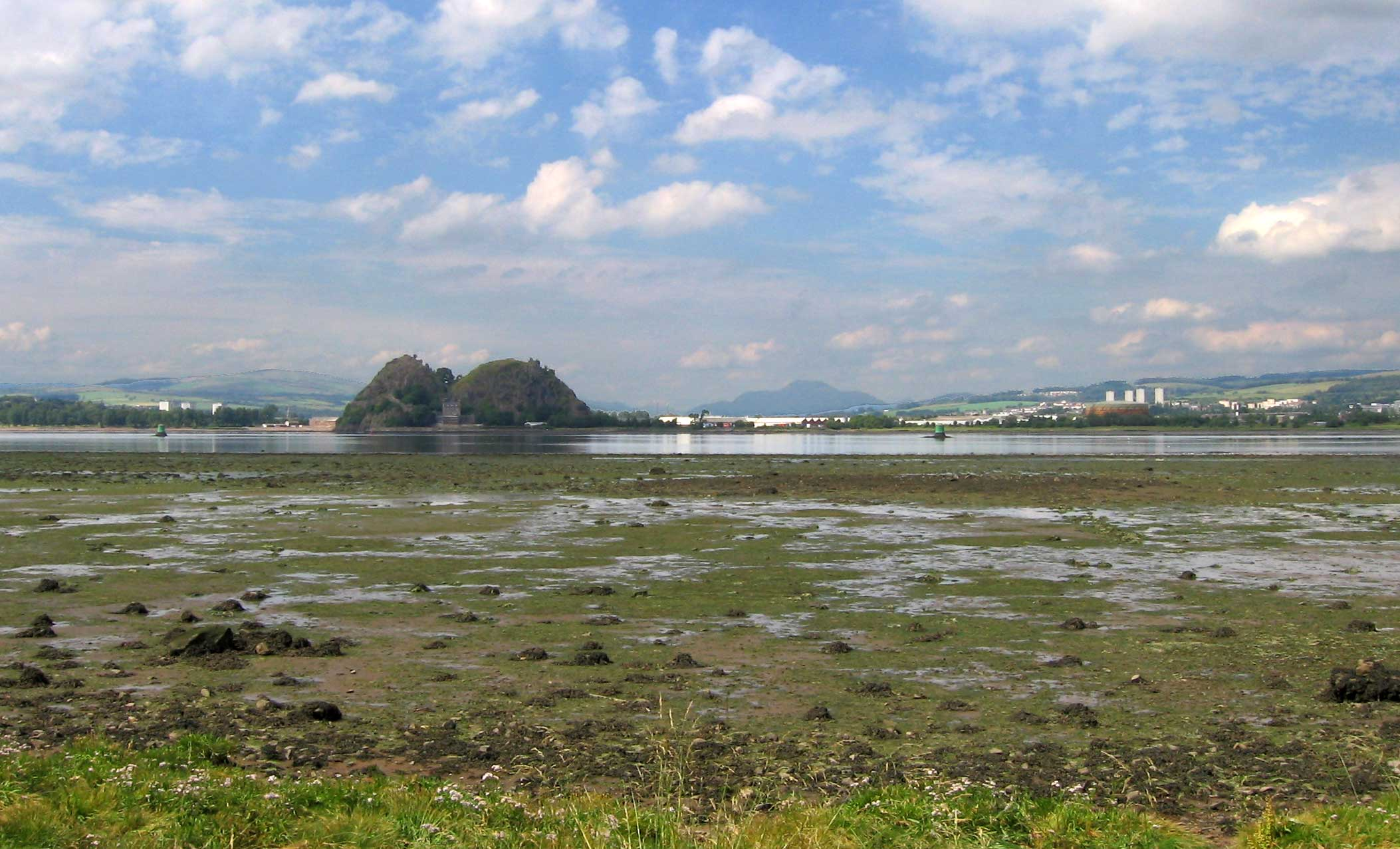 Dumbarton, Scotland seen across the River Clyde from West Ferry.